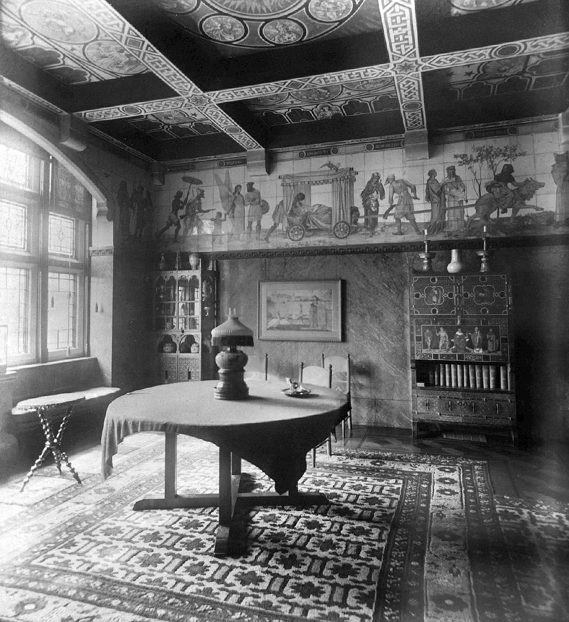 Dining room of Tower House, Kensington, William Burges.